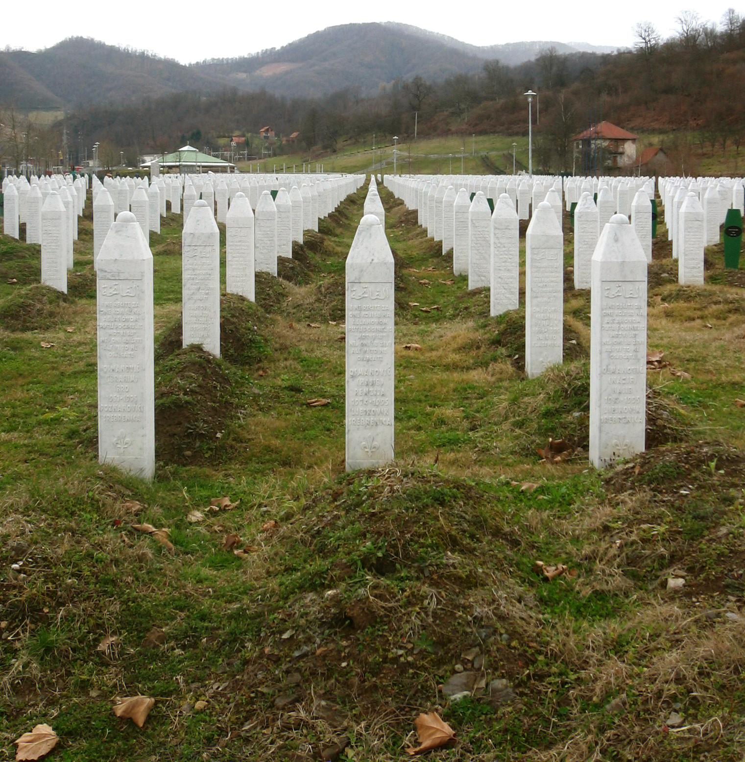 Gravestones at the Potočari genocide memorial near Srebrenica